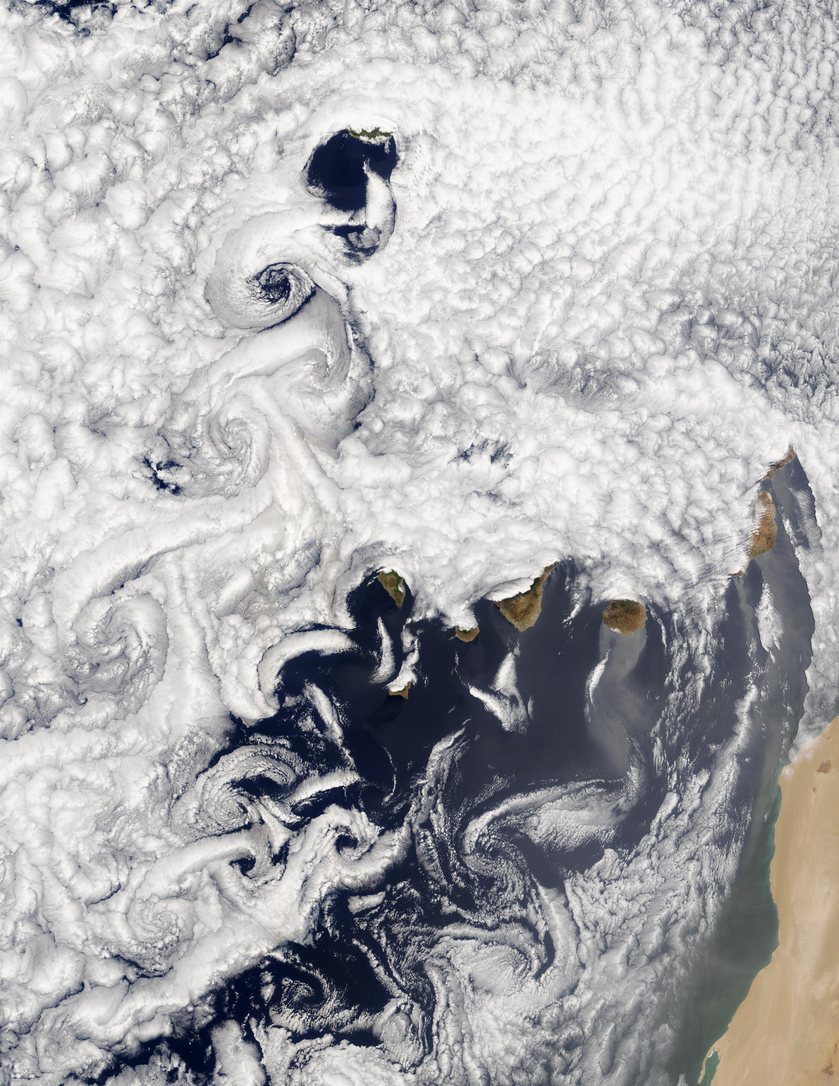 A vortex street often occurs when cloud formations over the ocean are disturbed by wind passing over land or another obstacle. In this true-color Moderate Resolution Imaging Spectroradiometer (MODIS) image from July 5, 2002, marine stratocumulus clouds have arranged themselves in rows, or streets, which are usually parallel to the direction of wind flow. Downwind of obstacles, in this case, the Canary Islands off the west African coast, eddies create turbulent patterns called vortex streets.